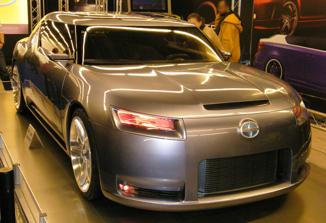 Scion Fuse Concept car, photo taken at the Montreal International Auto Show in January 2009. Photographer: Freddy Paranoia ( (